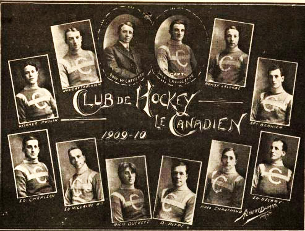 Team photograph of the Montreal Canadiens 1909-10.